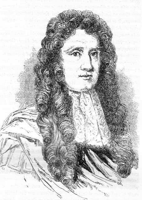 George Mackenzie, 1st Earl of Cromartie (1630-1714).